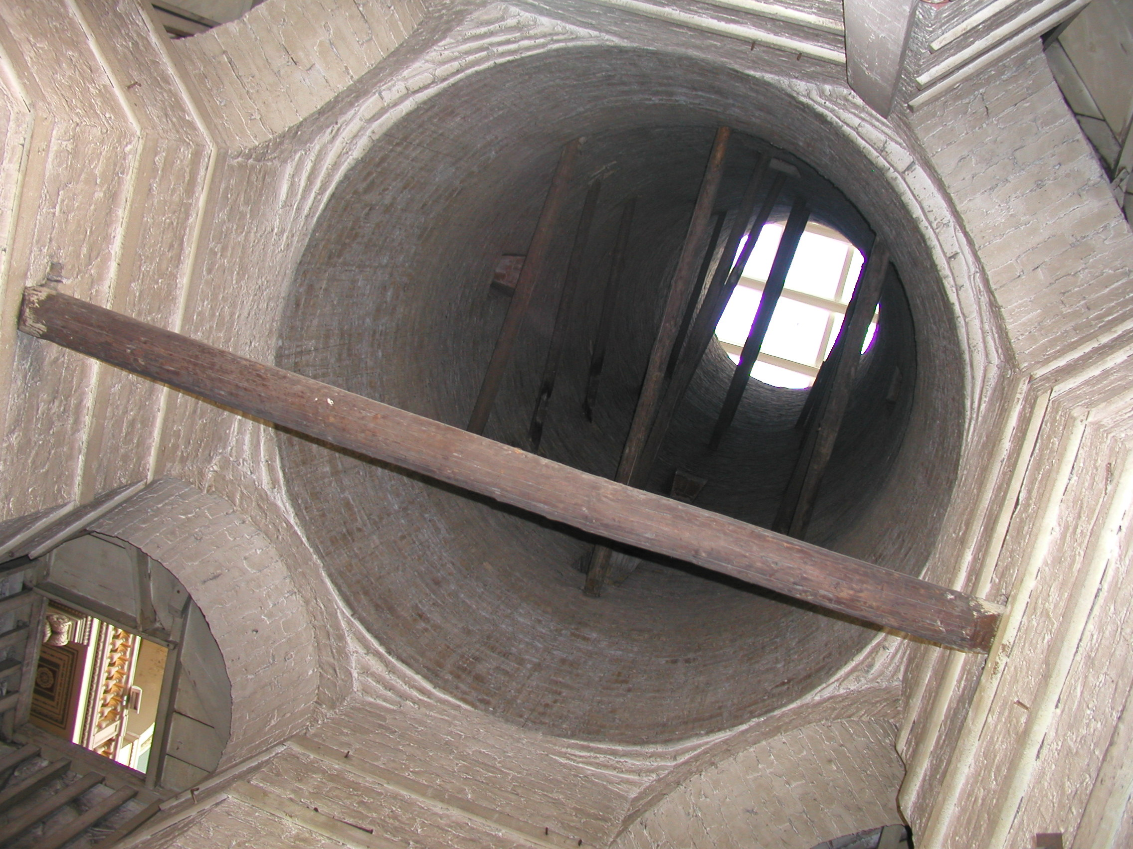 Inside the cast of Trajan's column at the Victoria and Albert museum, London. The view is from inside the pedestal and looking up the chimney-like structure which supports the cast. The roof window of the Cast Court can be seen through the top of the chimney. There is also a small apature on top of the pedestal through which the upper gallery of the Cast Court can be seen.